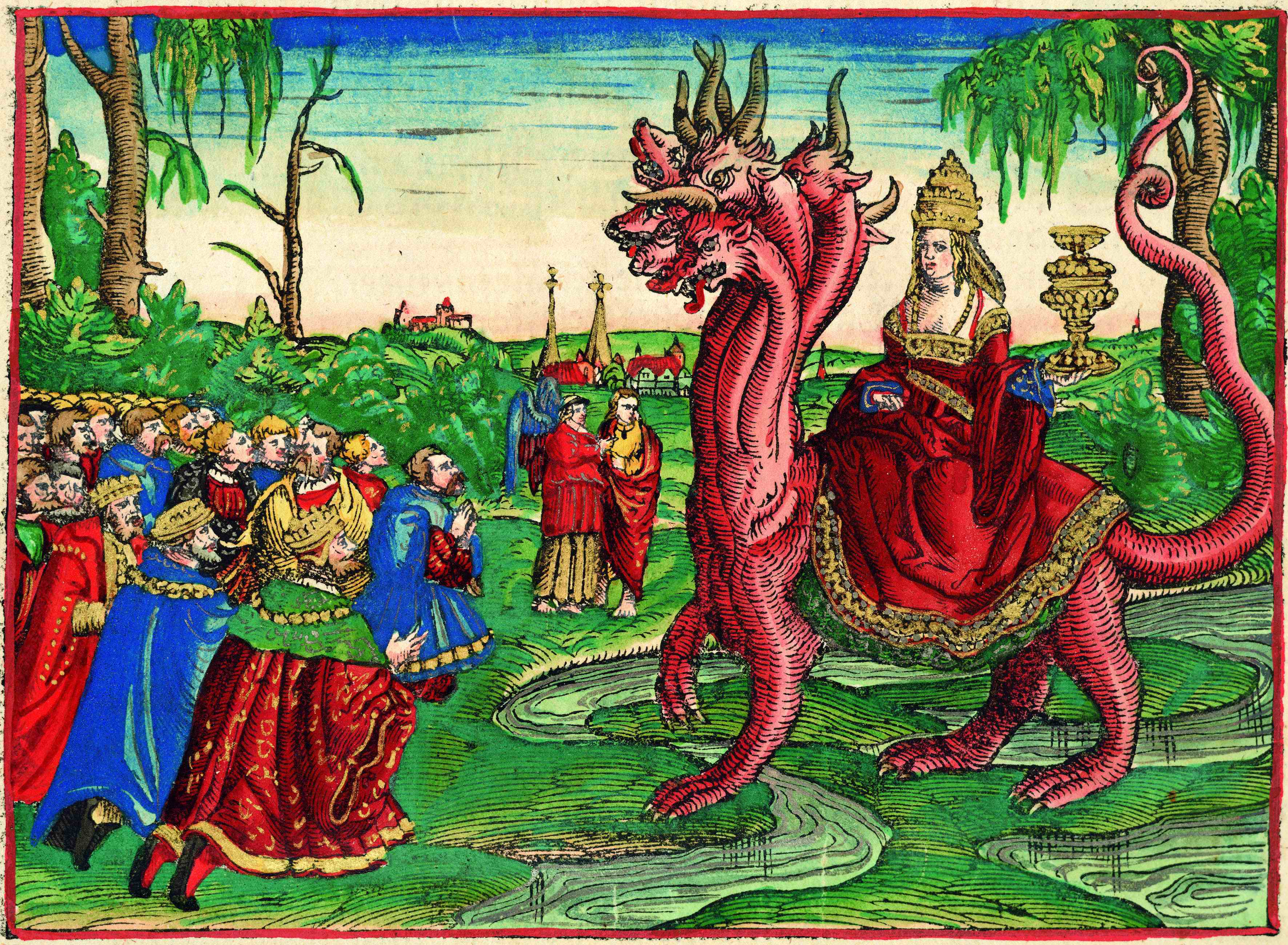 Colored version of the Whore of Babylon illustration from Martin Luther's 1534 translation of the Bible.